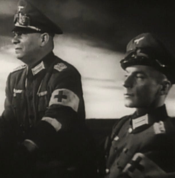 Erich von Stroheim (left) & Martin Kosleck in The North Star - cropped screenshot